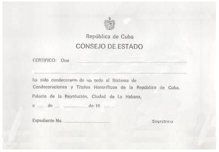 Diploma belonging to a Cuban decoration.